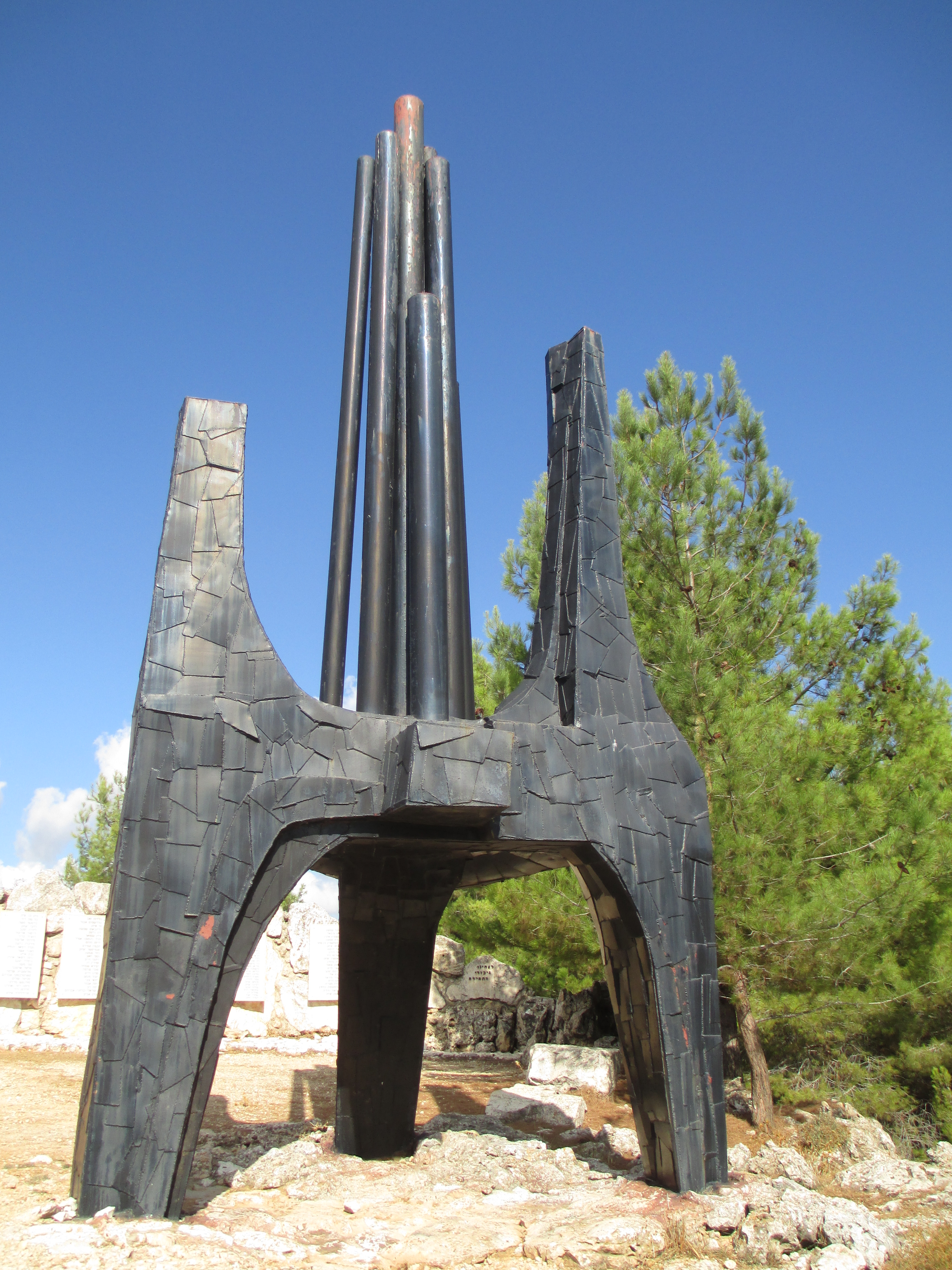 37th Armored Brigade Memoeial